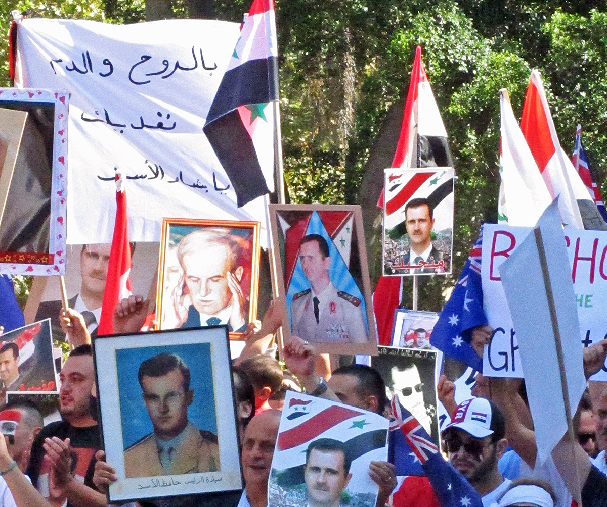 A demonstrator I asked said that their fear was that if Bashir was overthrown, Syria might go the same way as Afghanistan.